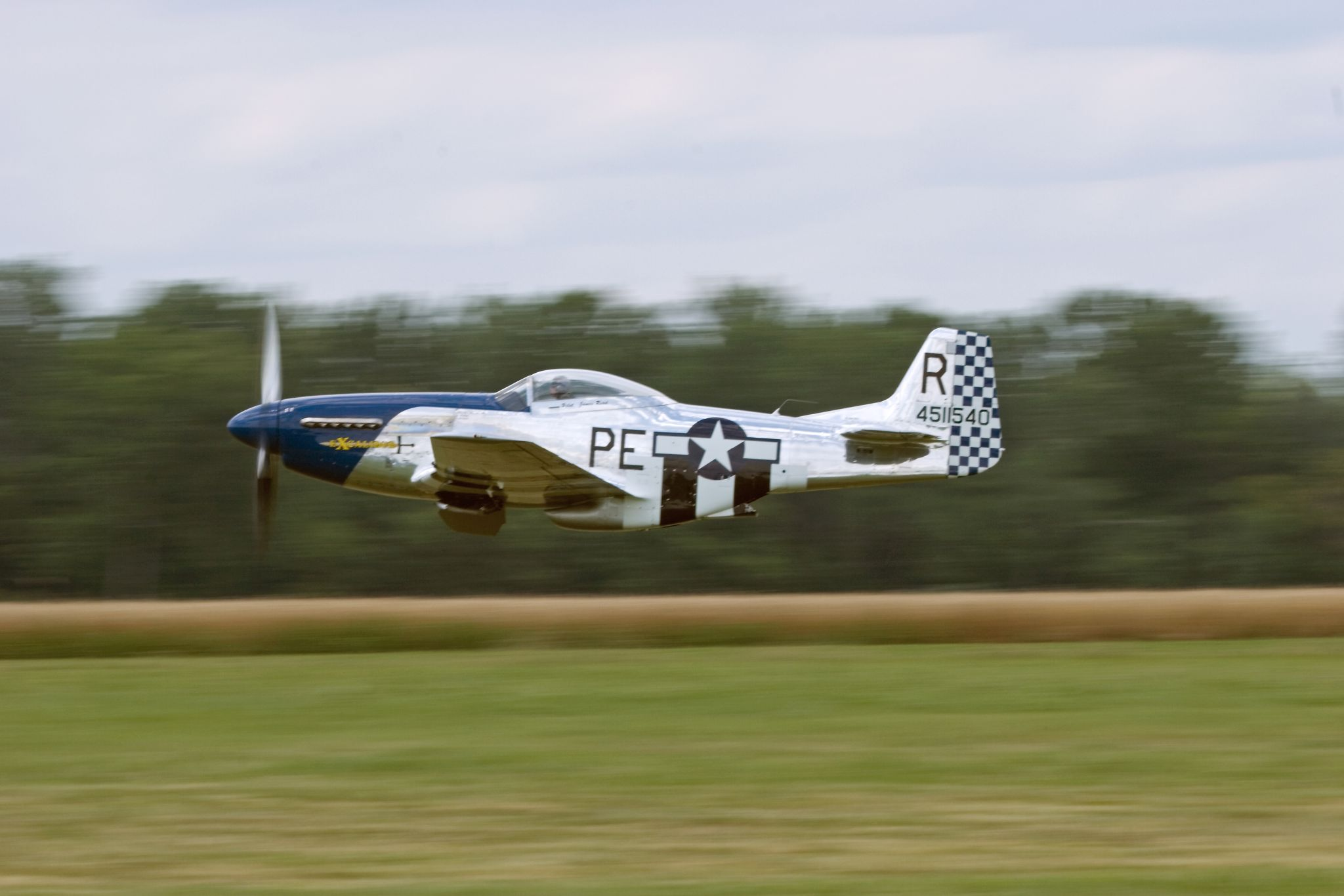 A P-51D Mustang at the Geneseo Airshow in Geneseo, New York.P-51D Mustang "Excalibur"